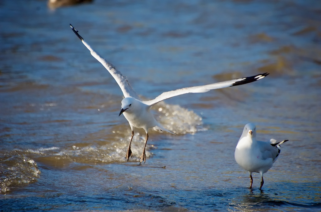 Silver Gulls, Swan River, East Perth, 2010.